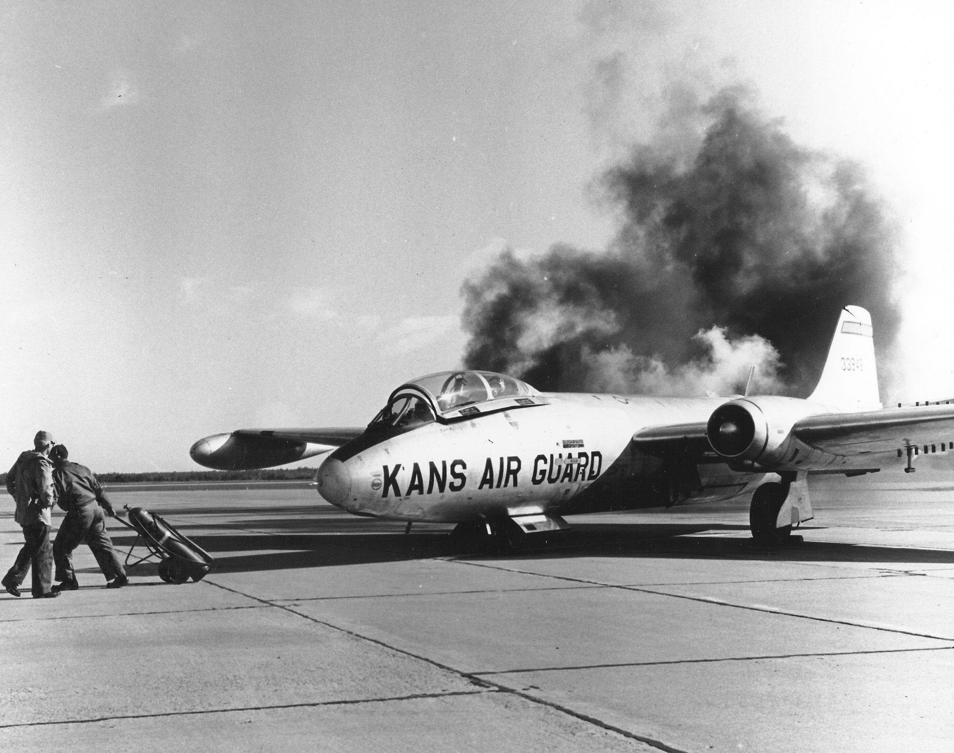 A U.S. Air Force Martin B-57C Canberra (s/n 53-3948) of the 117th Photo Reconnaissance Squadron, 190th Tactical Reconnaissance Group, Kansas Air National Guard in the 1960s. Engine start using pyrotechnic cartridges produced copious amounts of black smoke.